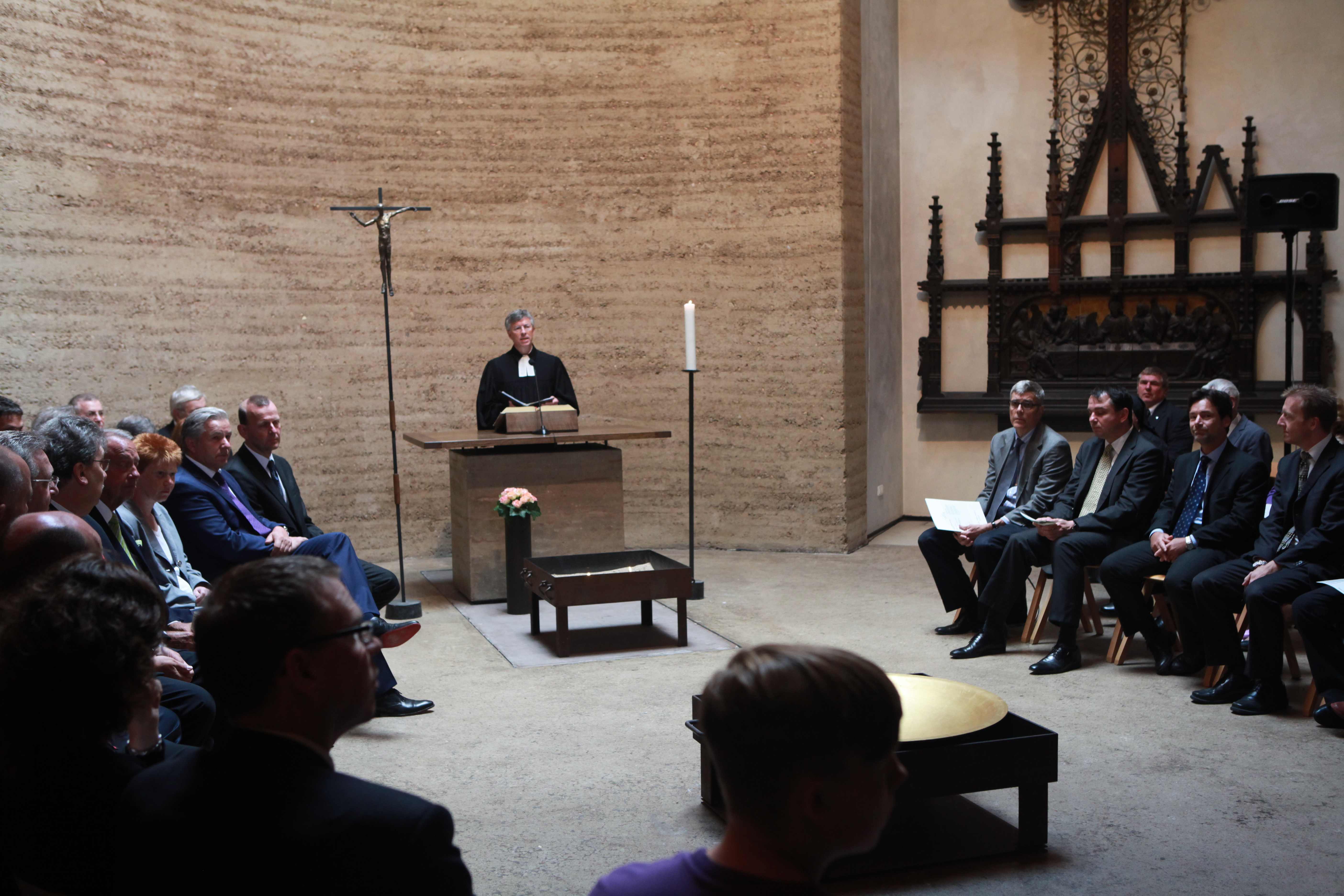 Ceremony in the Chapel of the Berlin Wall Memorial